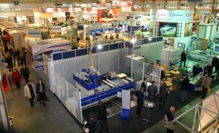 BUDMA